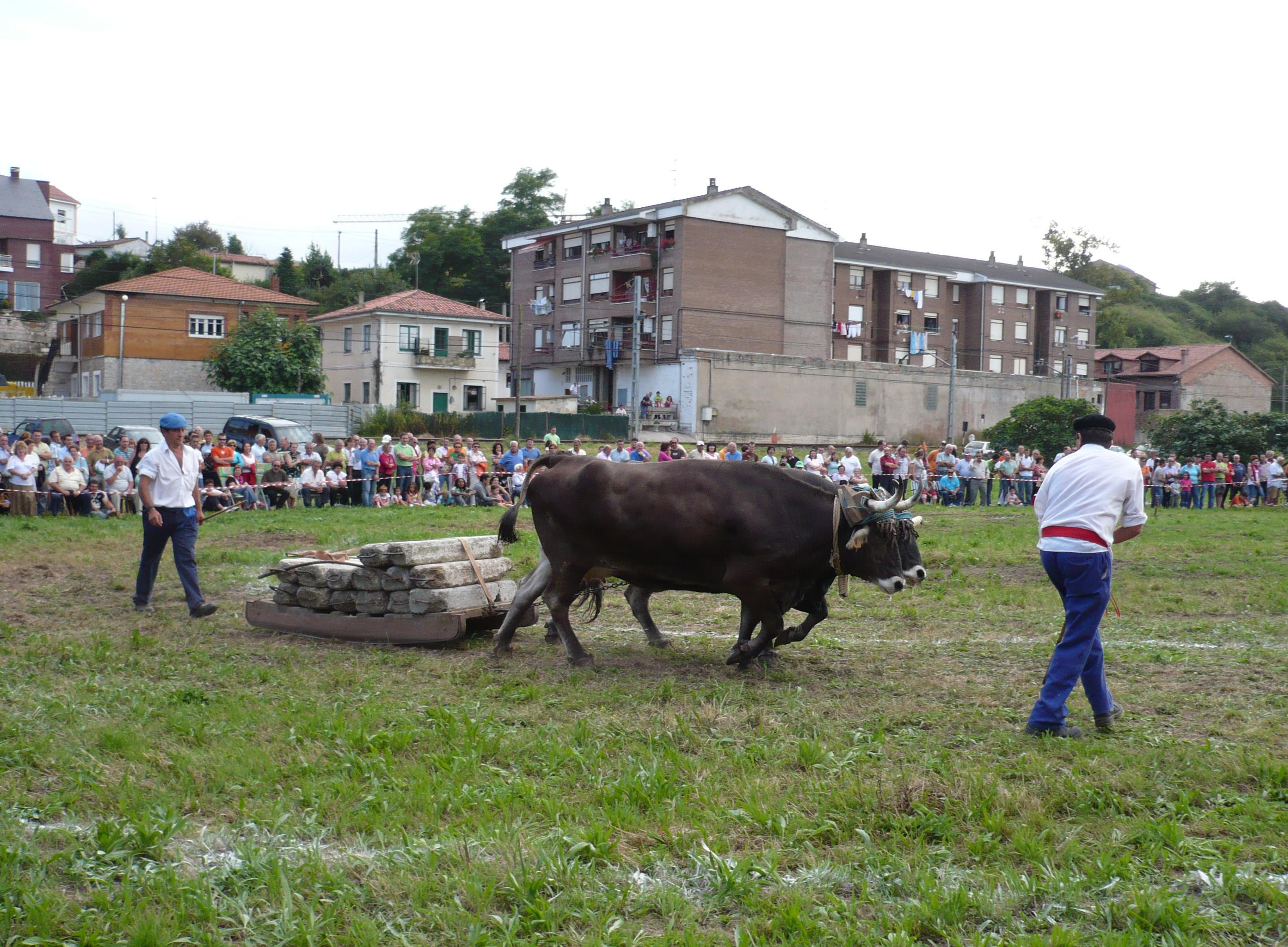 Tudanca cows in a dragging competition on 28 July, Day of Cantabria, in Puente San Miguel, Cantabria, Spain. Montañés: Vacas tudancas nun concursu d'arrastre de narras el 28 Santiagu, Día de Cantabria, en Bárcena la Puenti.